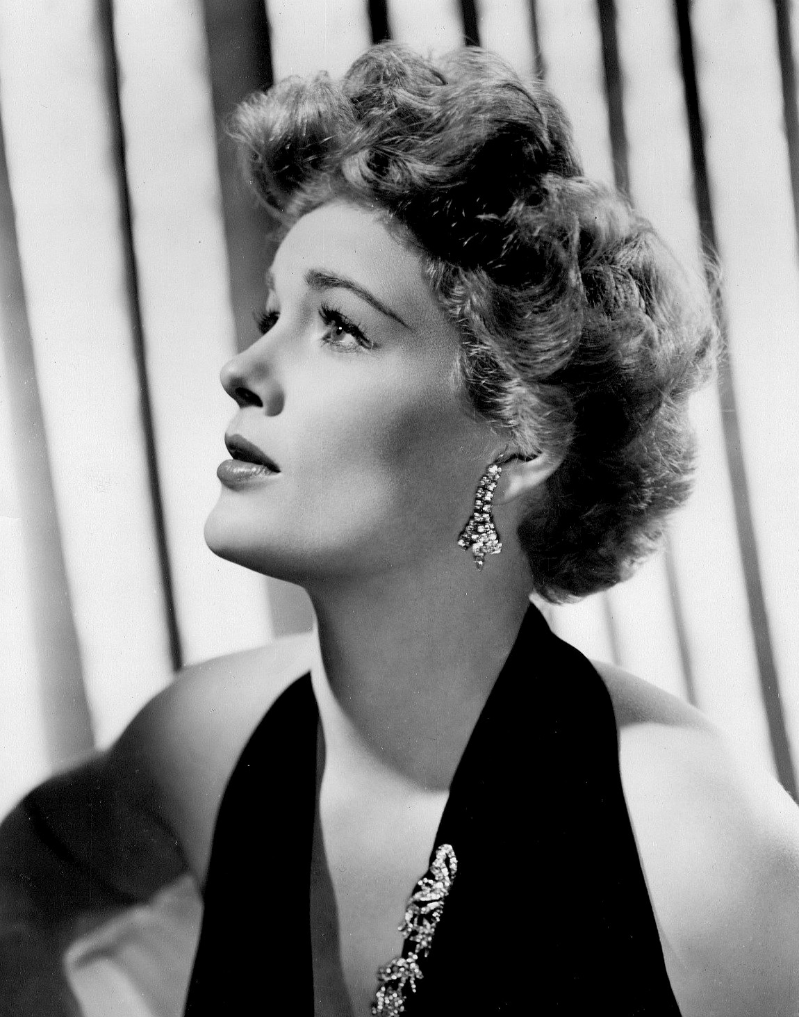 Photo of Jean Hagen from the television comedy series The Danny Thomas Show AKA Make Room for Daddy. Hagen played Margaret Williams, the first wife of Thomas' character Danny Williams, and the mother of Rusty and Terry. When Hagen wanted to leave the program, her character was written out as dying. The item has no copyright markings on it as can be seen in the links above.